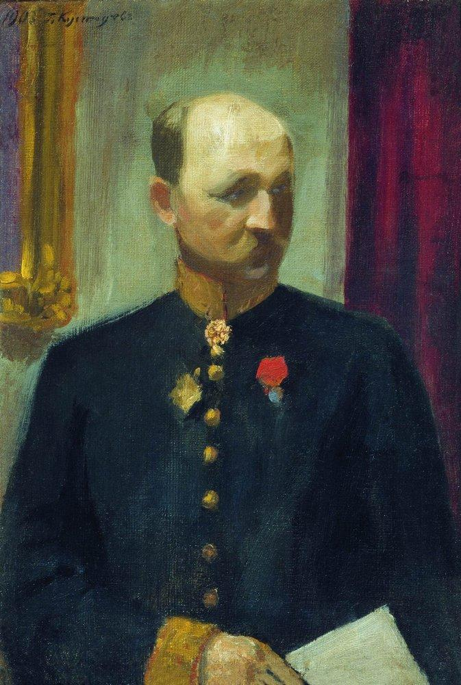 Portrait of public servant Nikolai Nikolayevich Korevo. Study for the picture Formal Session of the State Council. Oil on canvas. 42 × 29.5 cm. The State Russian Museum, St. Petersburg.